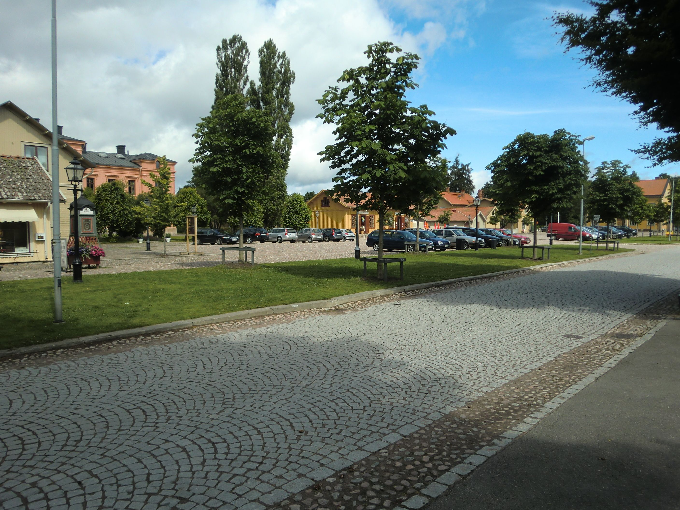 The town square inside Karlsborg Fortress. Guided tourist activities starts here.